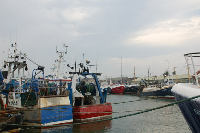 Kilkeel harbour. In this photograph Kilkeel might look like a busy fishery harbour but the tonnage landed in 2005 was not much more than half that in 1998. There is no longer the continuity of work to encourage school leavers to become fishermen. The boats are still locally owned but the crews are often from eastern Europe. The death of another traditional industry.